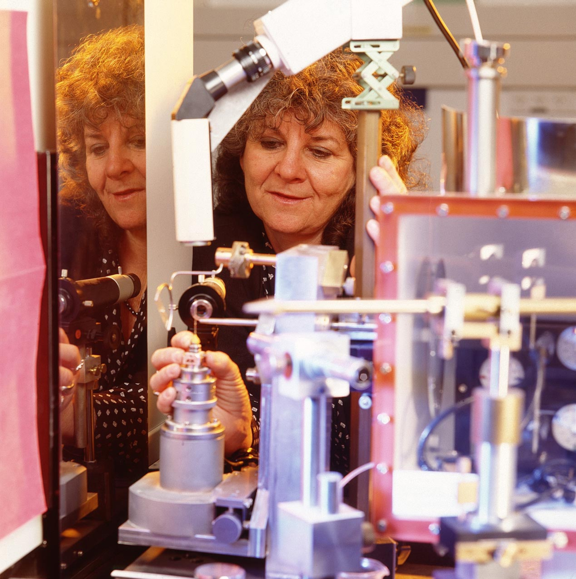 Ada Yonath